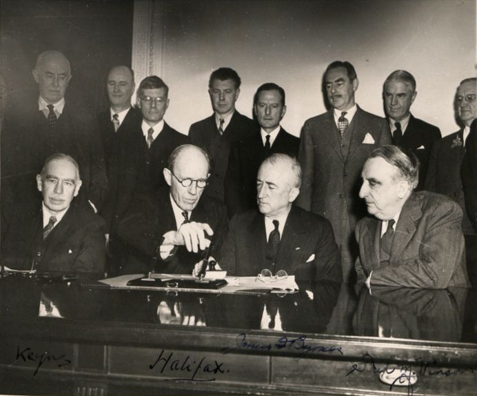 Photograph of the signing of the Anglo-American loan agreement at the State Dept, Washington, on 6 Dec. 1945. This image is part of the Colonial Office photographic collection held at The National Archives. Colonial Office catalogue reference: Part of CO 1069/778. Sitted from left to right: John Maynard Keynes, Lord Halifax, James Byrnes, Fred Vinson.